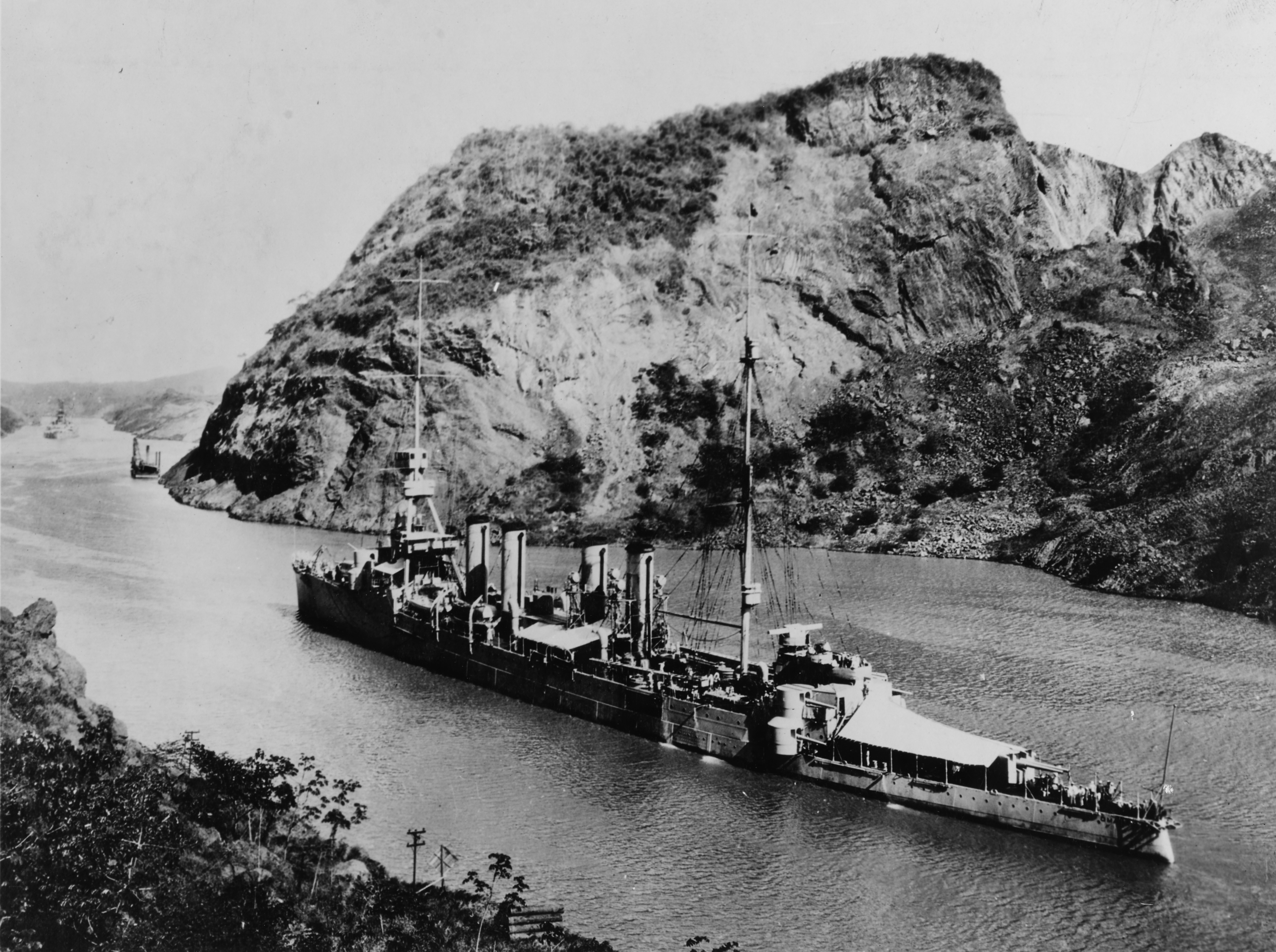 The U.S. Navy light cruiser USS Omaha (CL-4) passing through the Panama Canal, circa 1925-1926. Note the battleship in the distance at left.